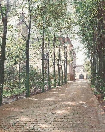 Carl Maria Seyppel (auch Karl Maria Seyppel, 1847 - 1913) , Titel - Villa Elisabeth im Mai.jpg